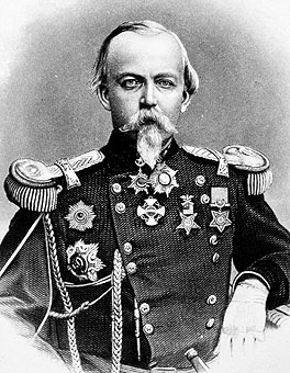 photo of Charles P. Stone (1824-1887), Pasha, Lt. General of the Egyptian Army